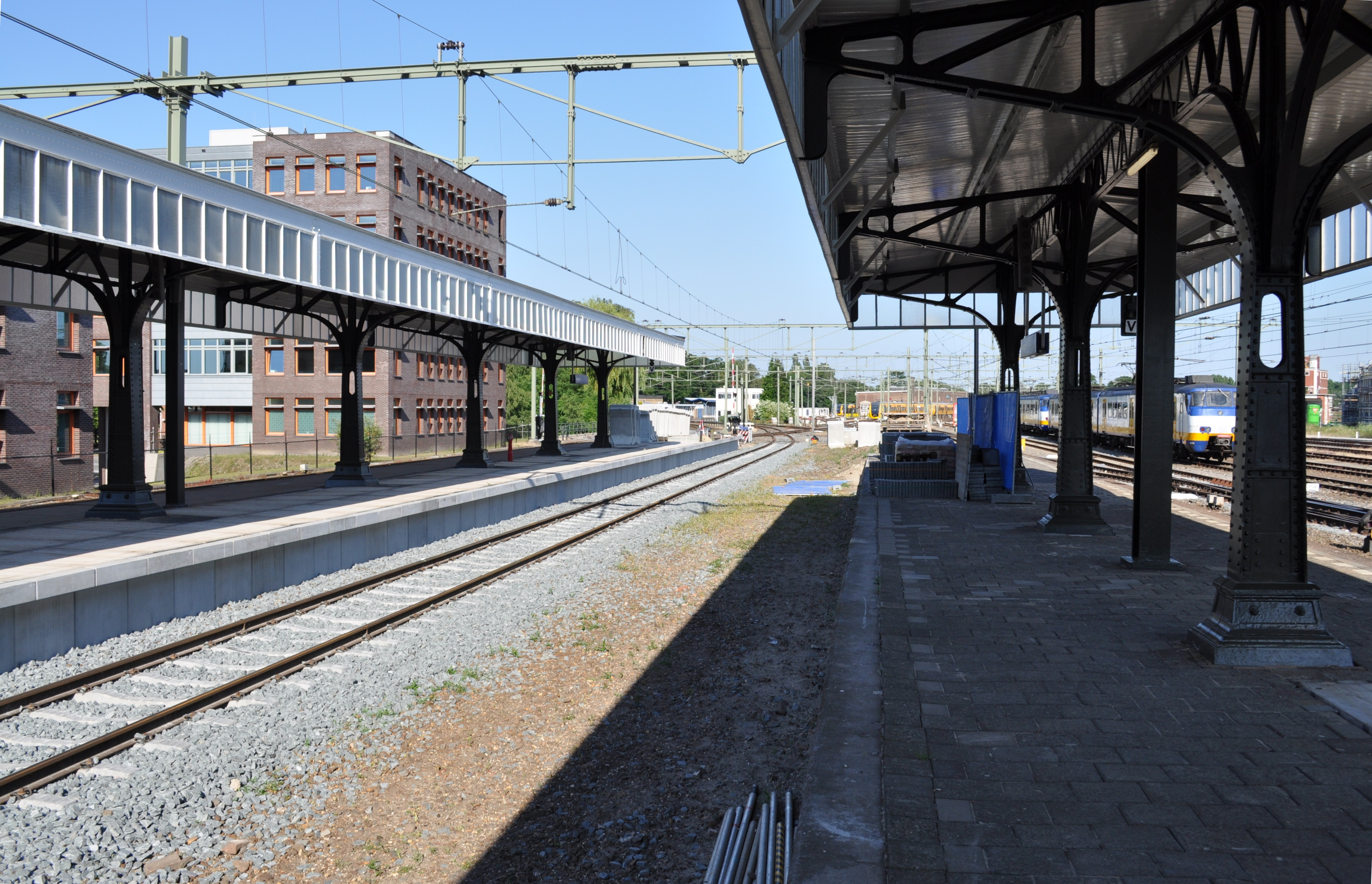 Zakspoor railway station Hengelo.